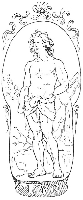 The god Týr, one-handed, stands before the bound wolf Fenrir. Illustration appears within the Hymiskviða section of this translation.